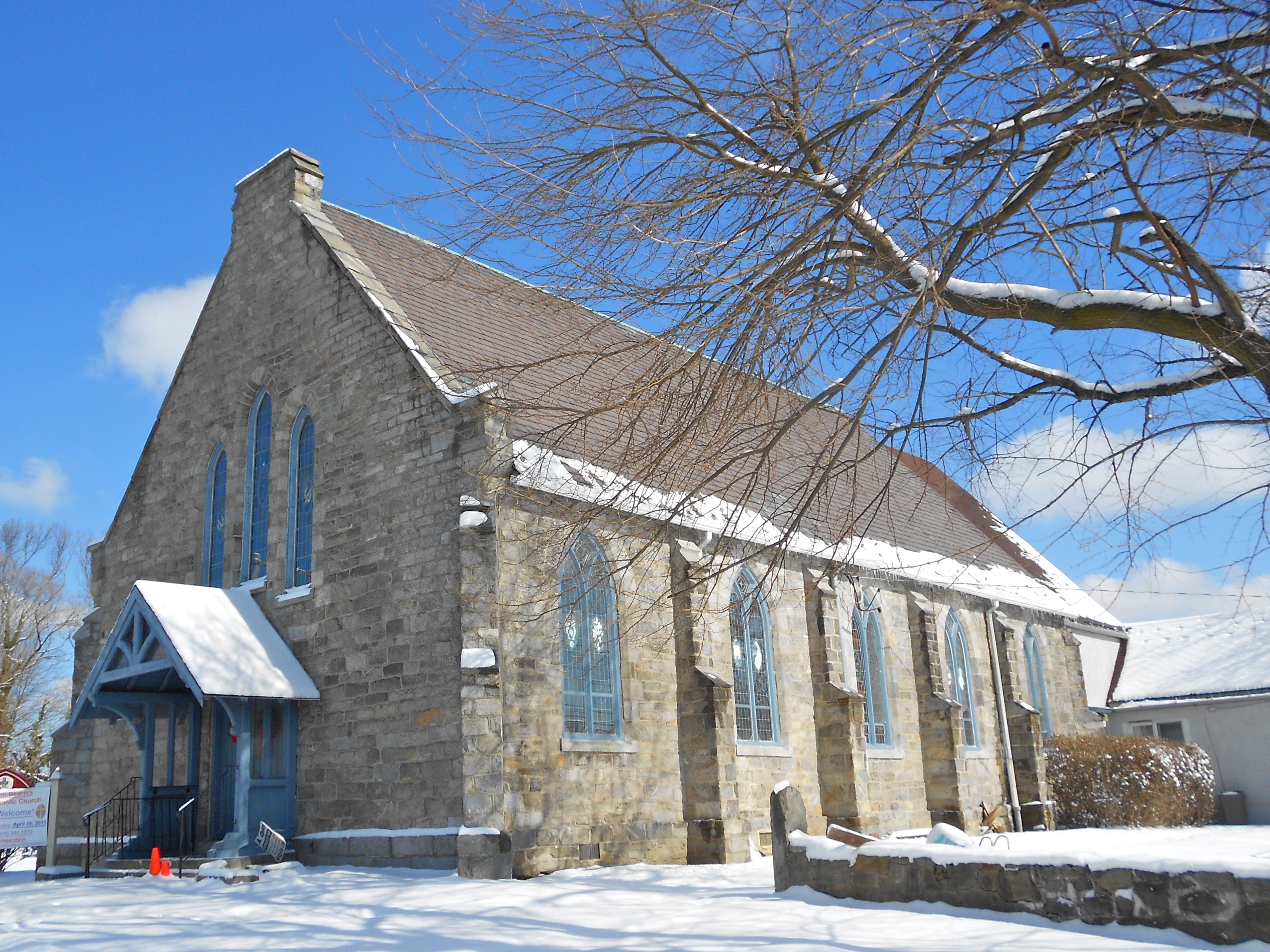 The former Leiper Presbyterian Church, now a Ukrainian Catholic church, near Swarthmore, Pennsylvania